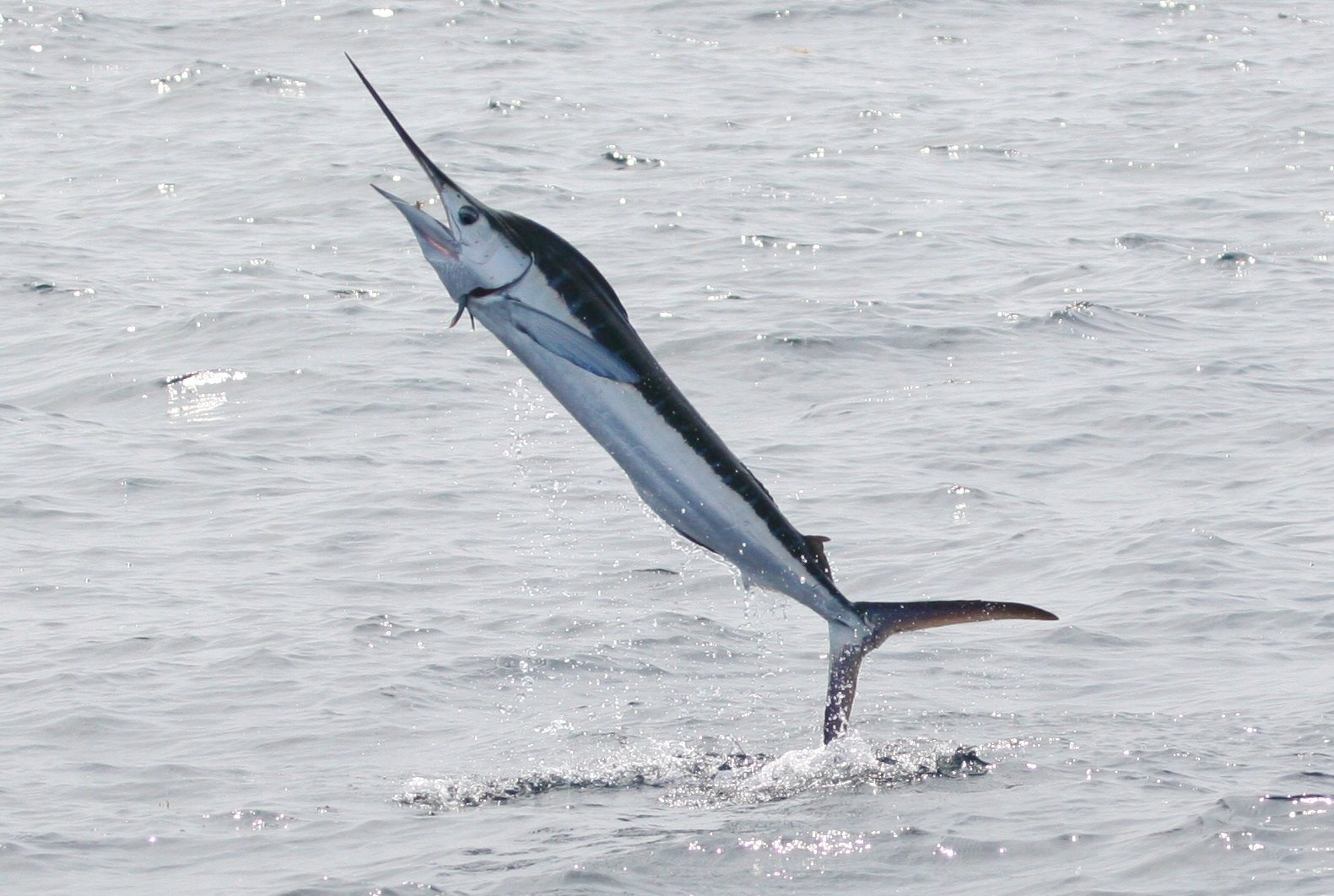 Crop of file in filename